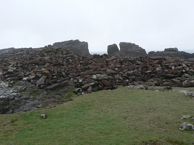 Grind of the Navir. This picture, taken from further inland than 2854 shows the blocks that have broken from the pond and thrown inland.